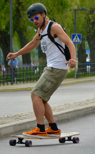 Stockholm Skateathon July 19, 2014 at Norrmälarstrand on Kungsholmen.